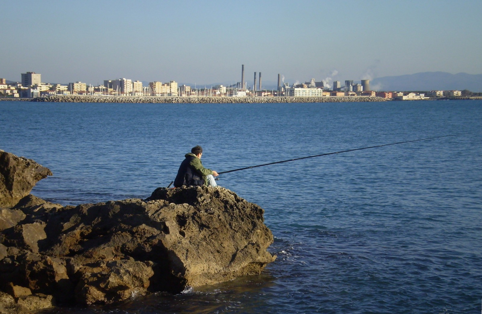 View of Rosignano Solvay (district of Rosignano Marittimo (LI), Italy)